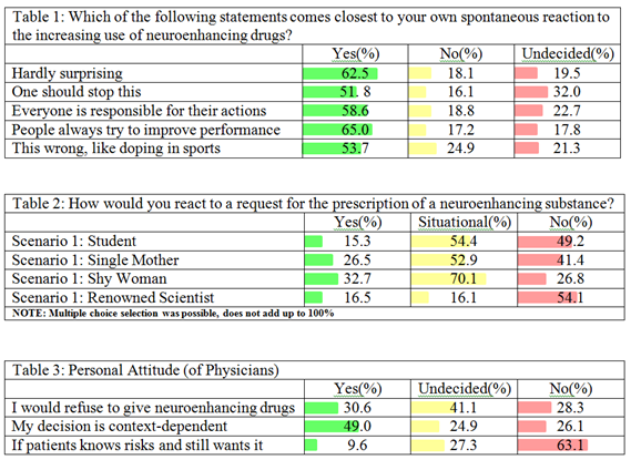 Just has survey results of a bunch of questions